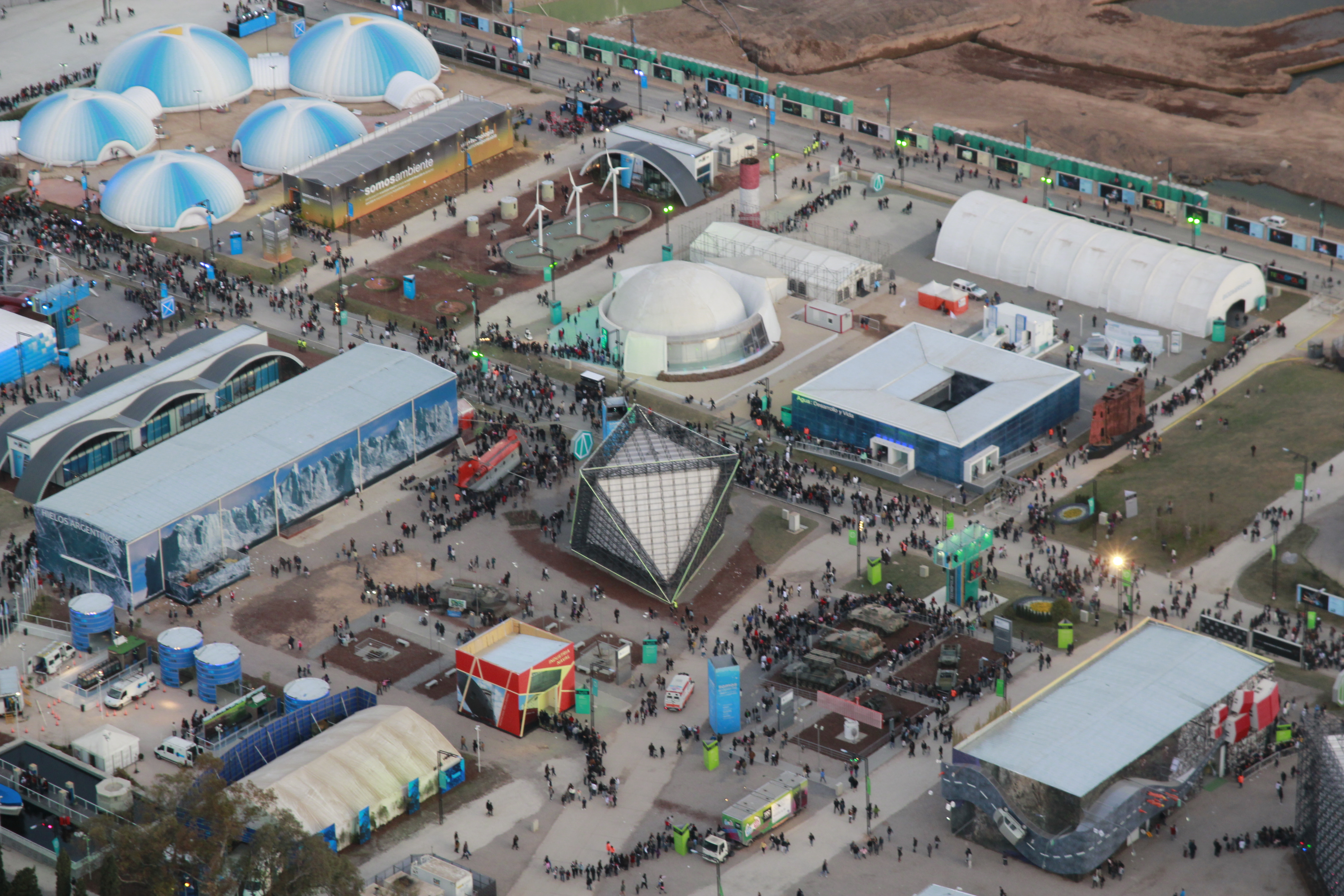 Aerial view of the 2011 Tecnópolis fair, in Villa Martelli. Photo: Mariano Sanda/Tecnópolis.